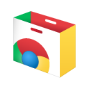 Chrome Web Store icon